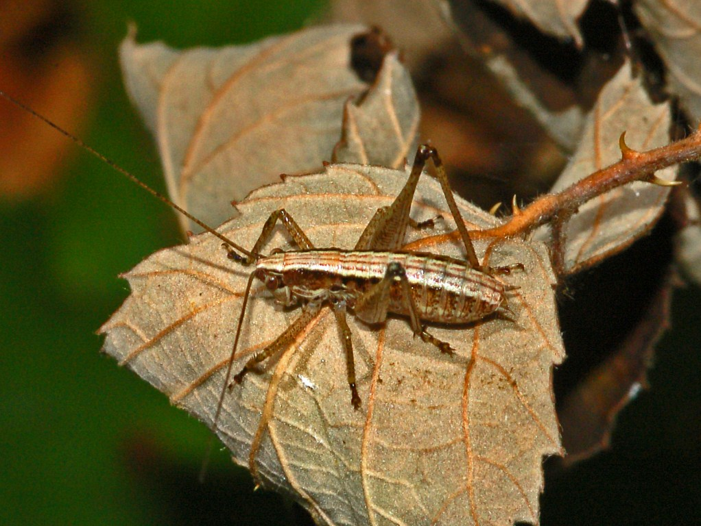 Yersinella raymondi - male